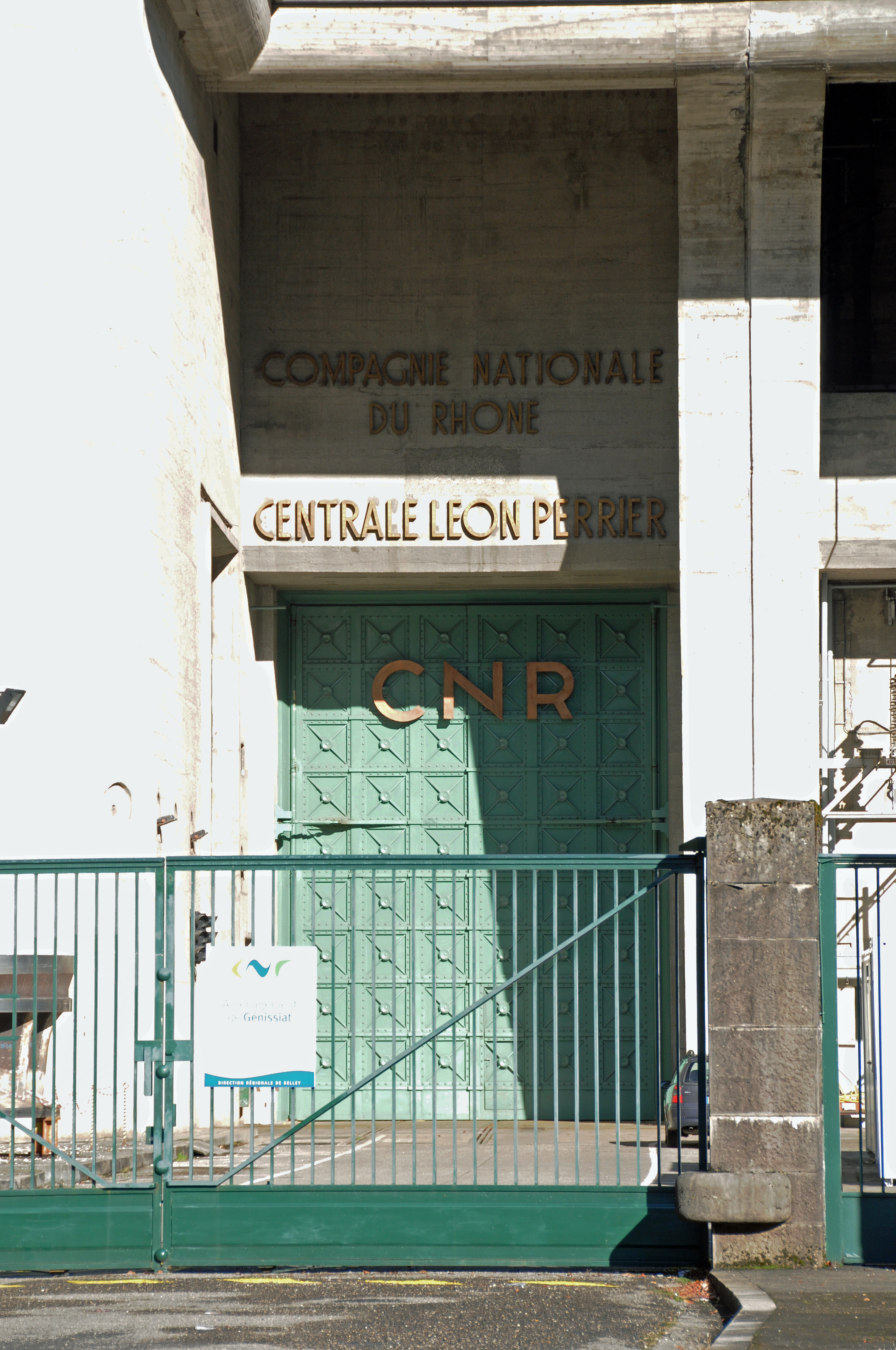 Power plant entrance